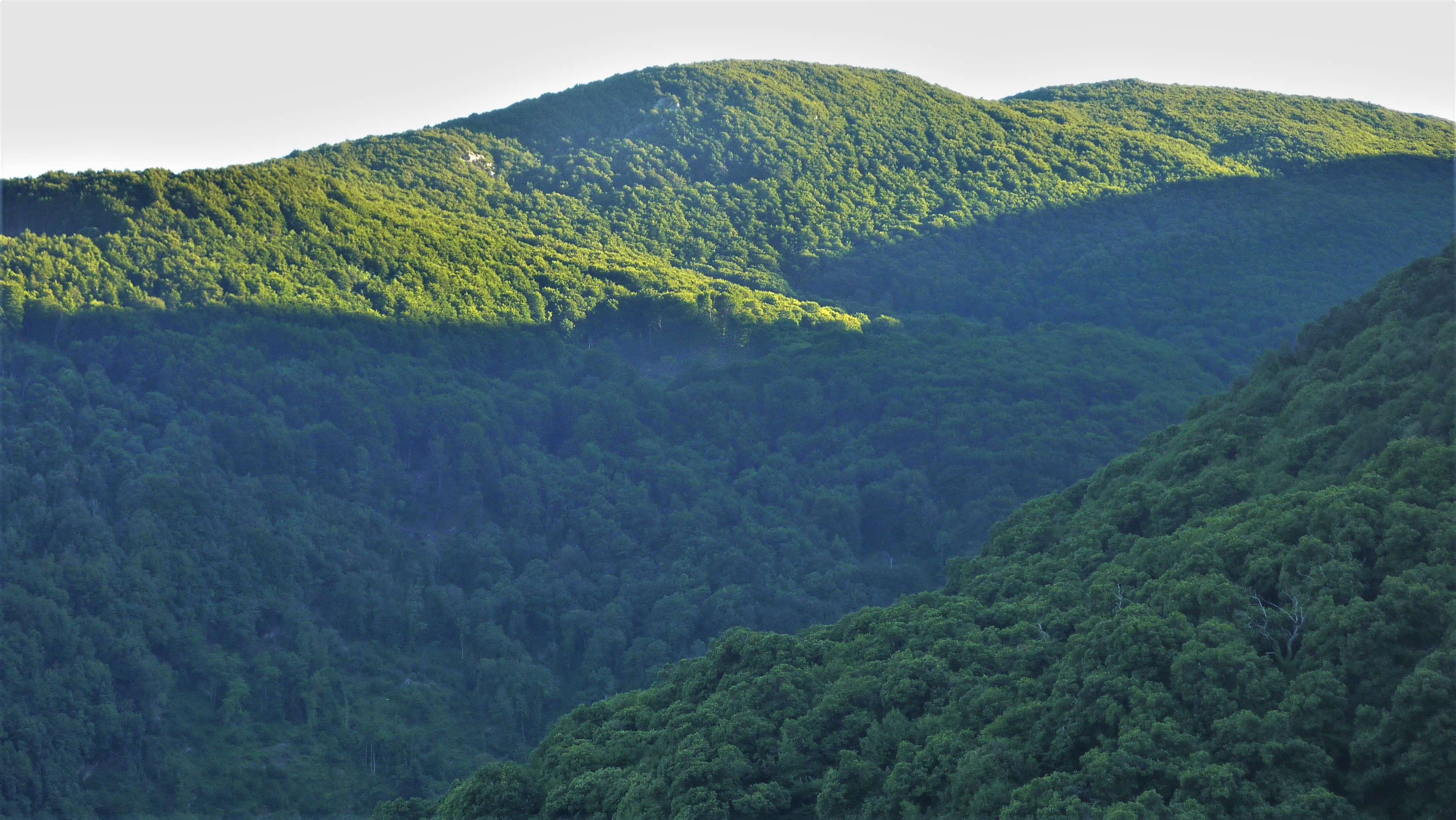 This is a photography of Natura 2000 protected area with ID GR1430001